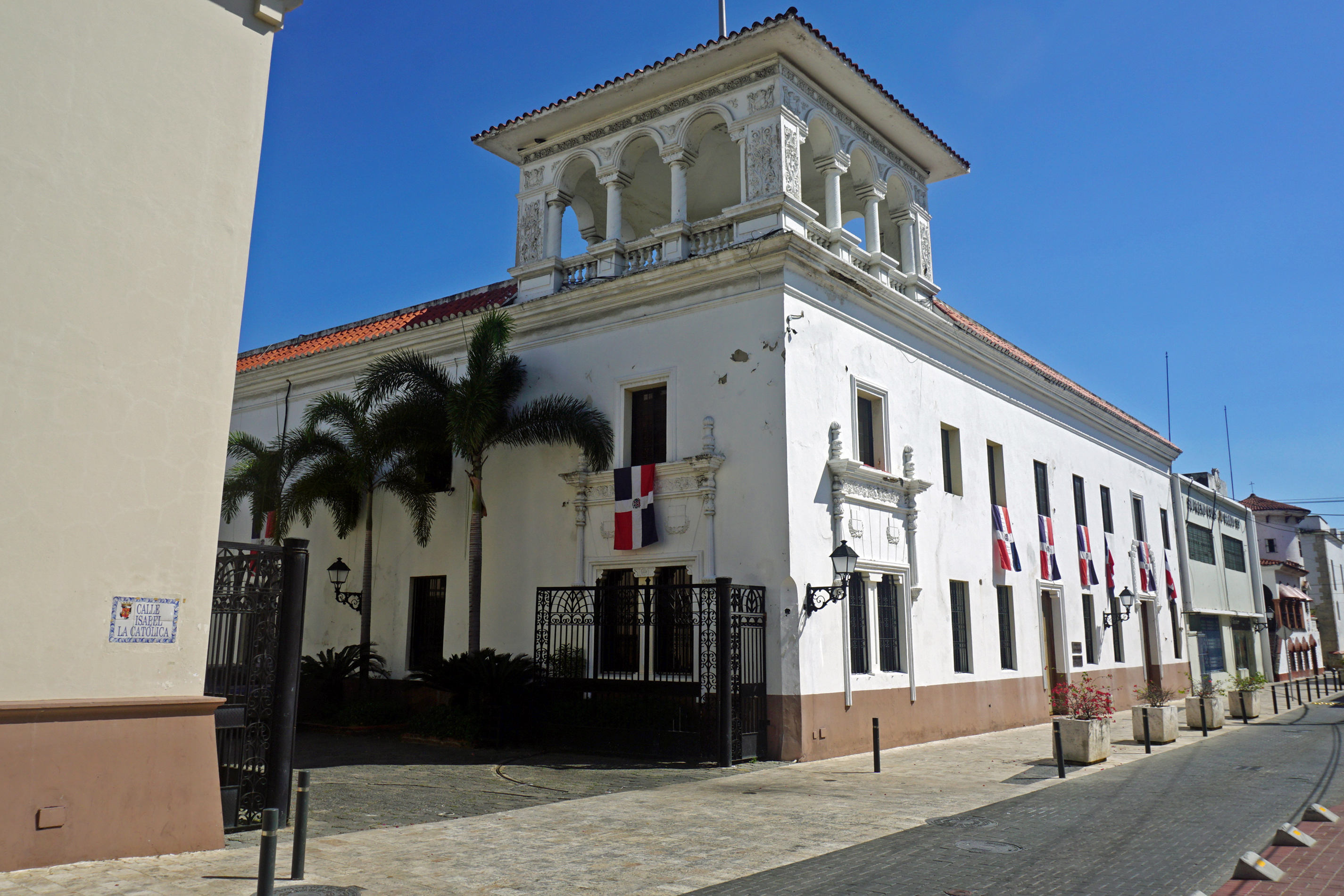 Calle Isabel la Católica, Ciudad Colonial, Santo Domingo. Dominican Republic.